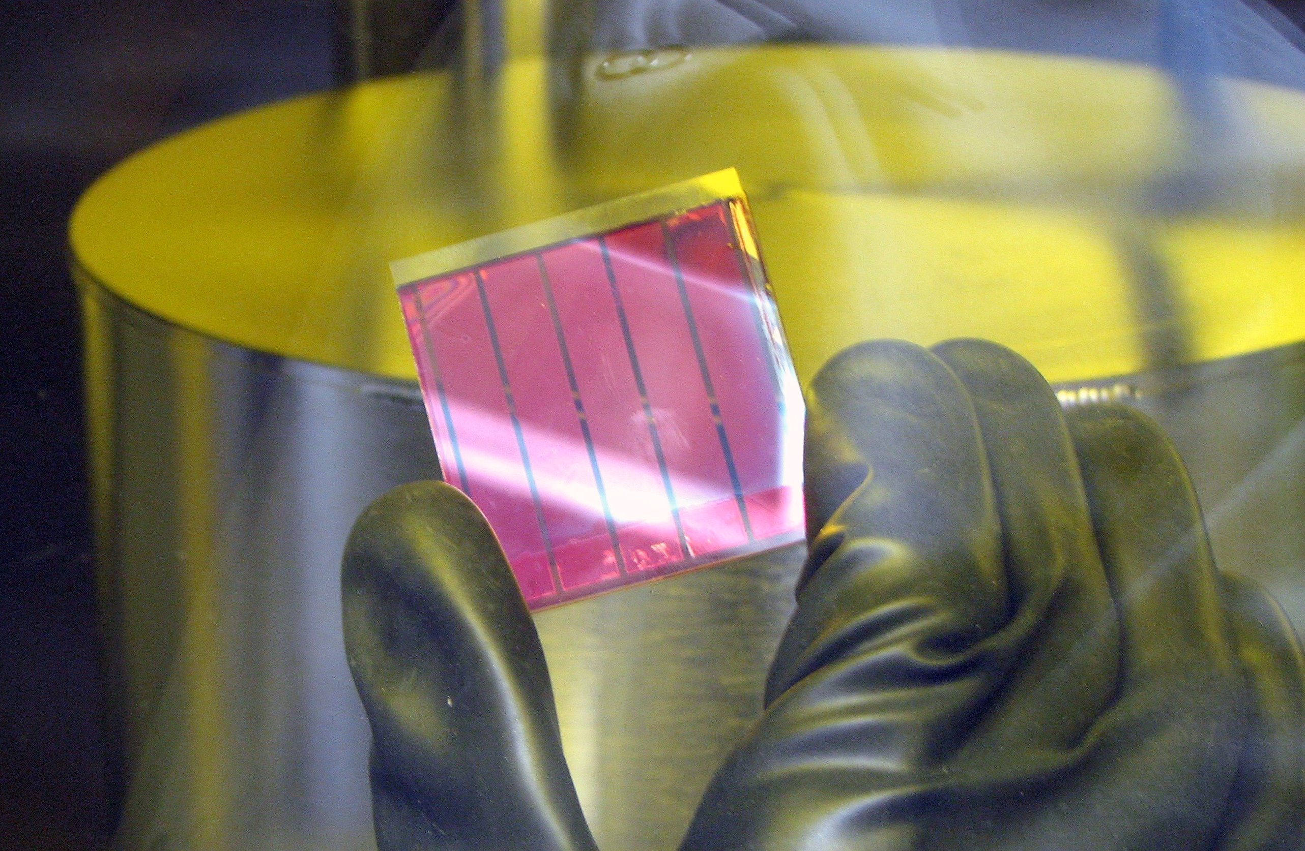 Solar cell